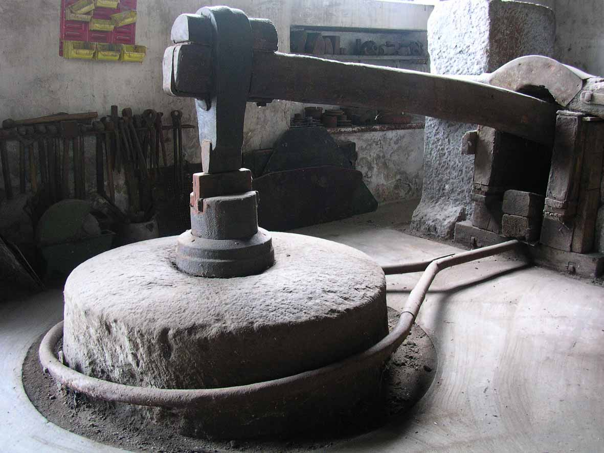 S.Maria_la_Longa,_maglio,_fucina_di Mariano_Fabris